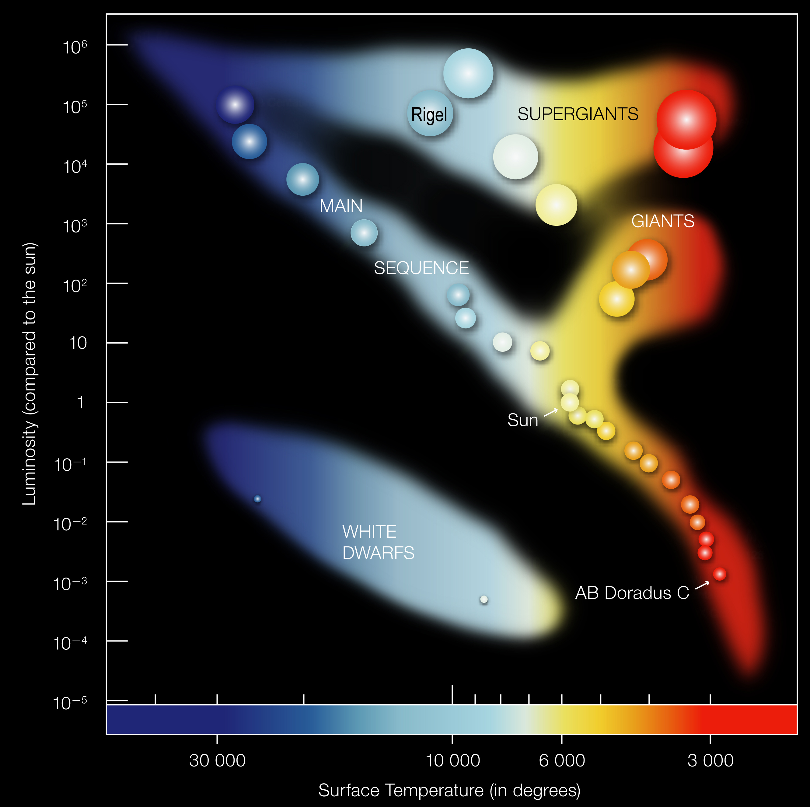 Adapted from File:Hertzsprung-Russell Diagram - ESO.png with the addition of Rigel onto the diagram. From here originally